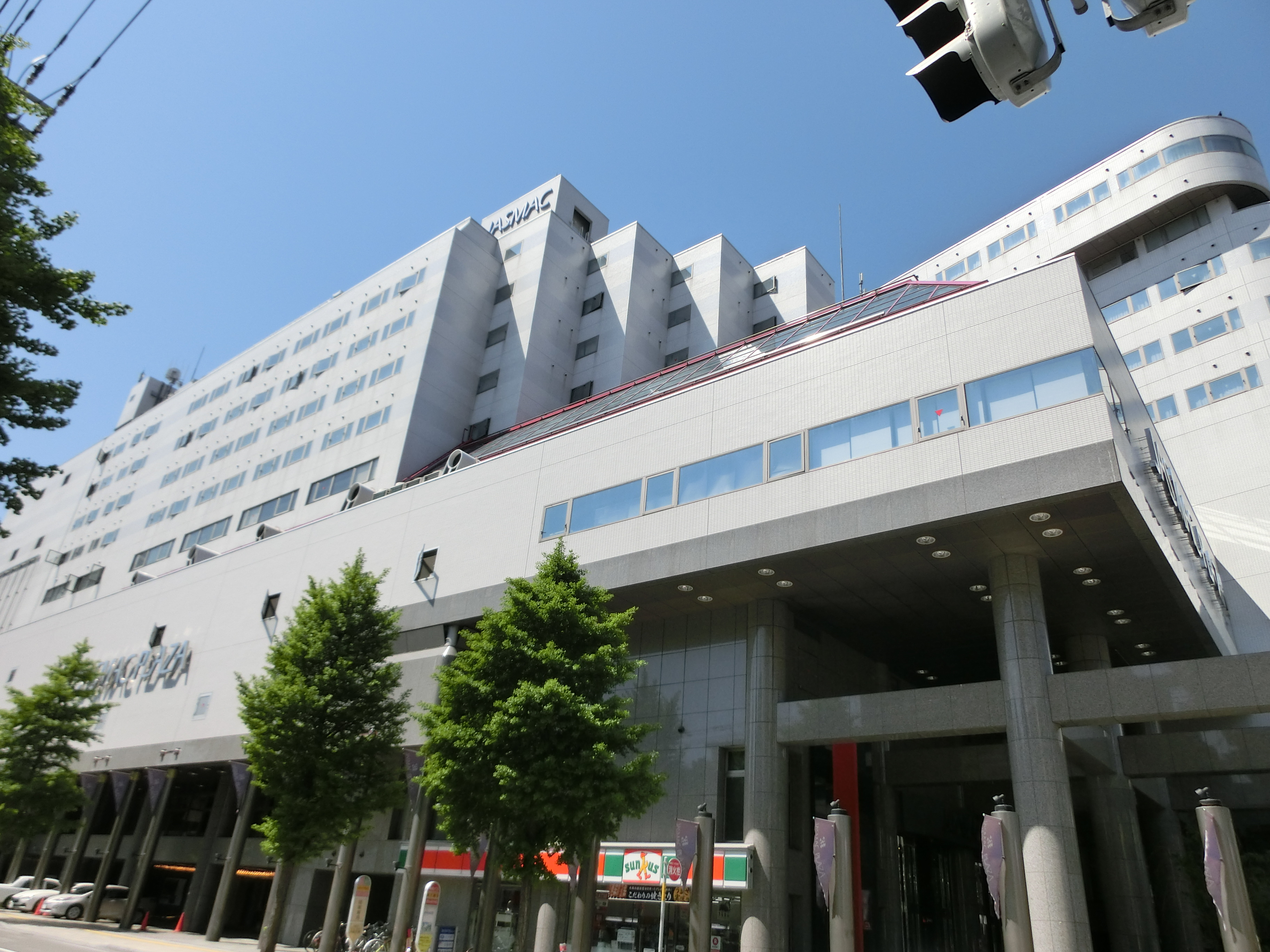 Jasmac Plaza Hotel